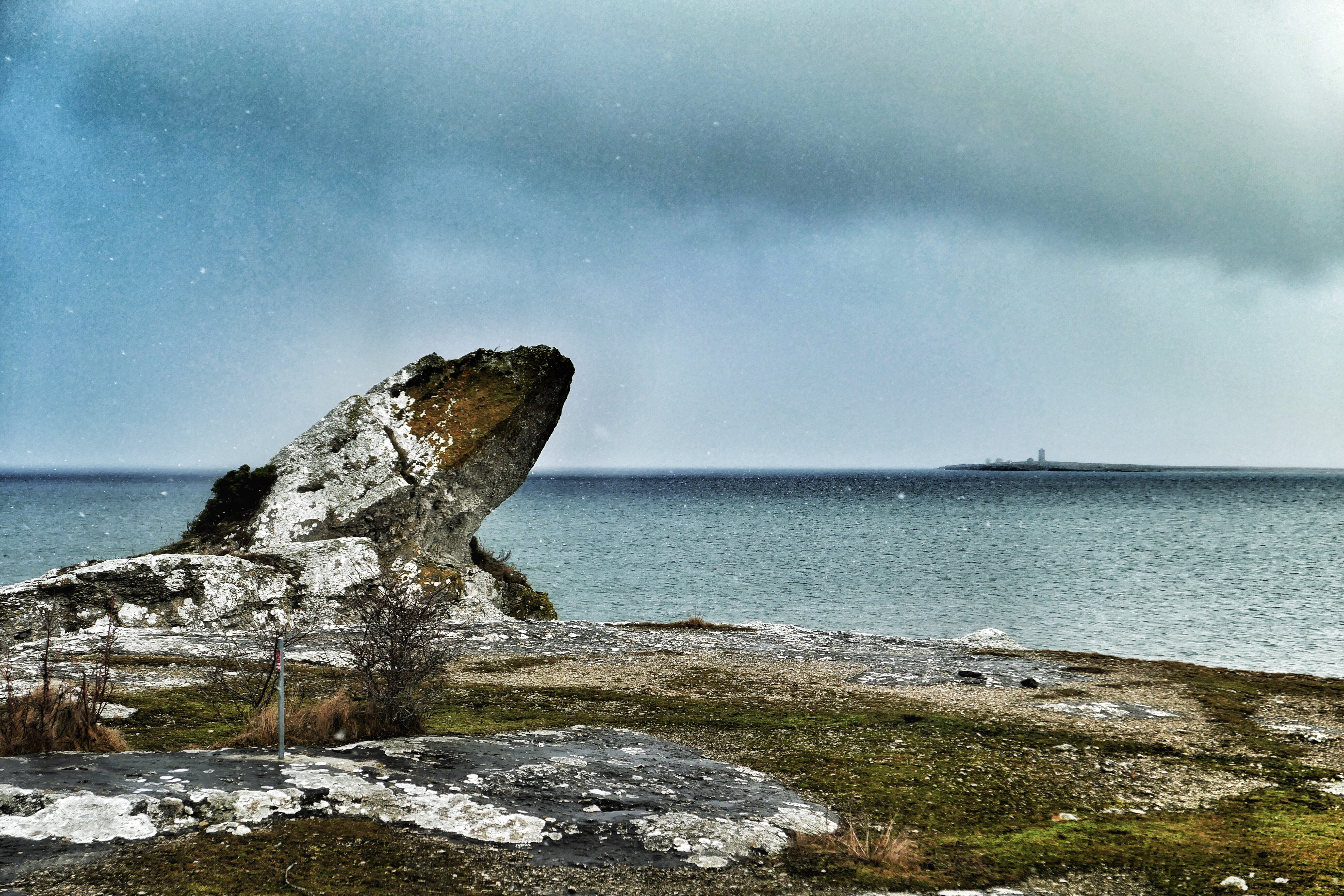 The cape Kuppen in Herrvik, Gotland. In the background Östergarnsholm and the old lighthouse.